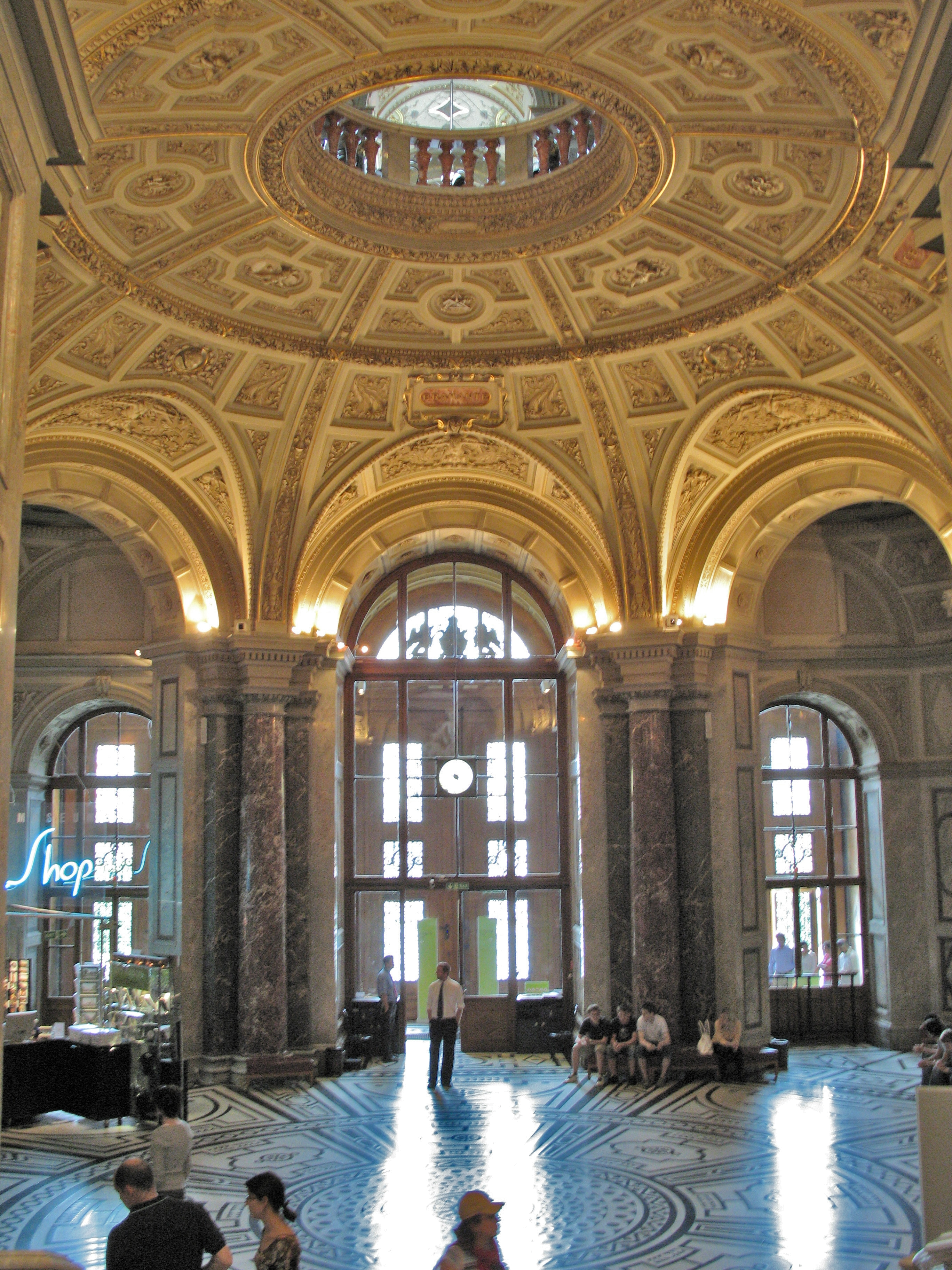 Art History Museum, Vienna, Austria